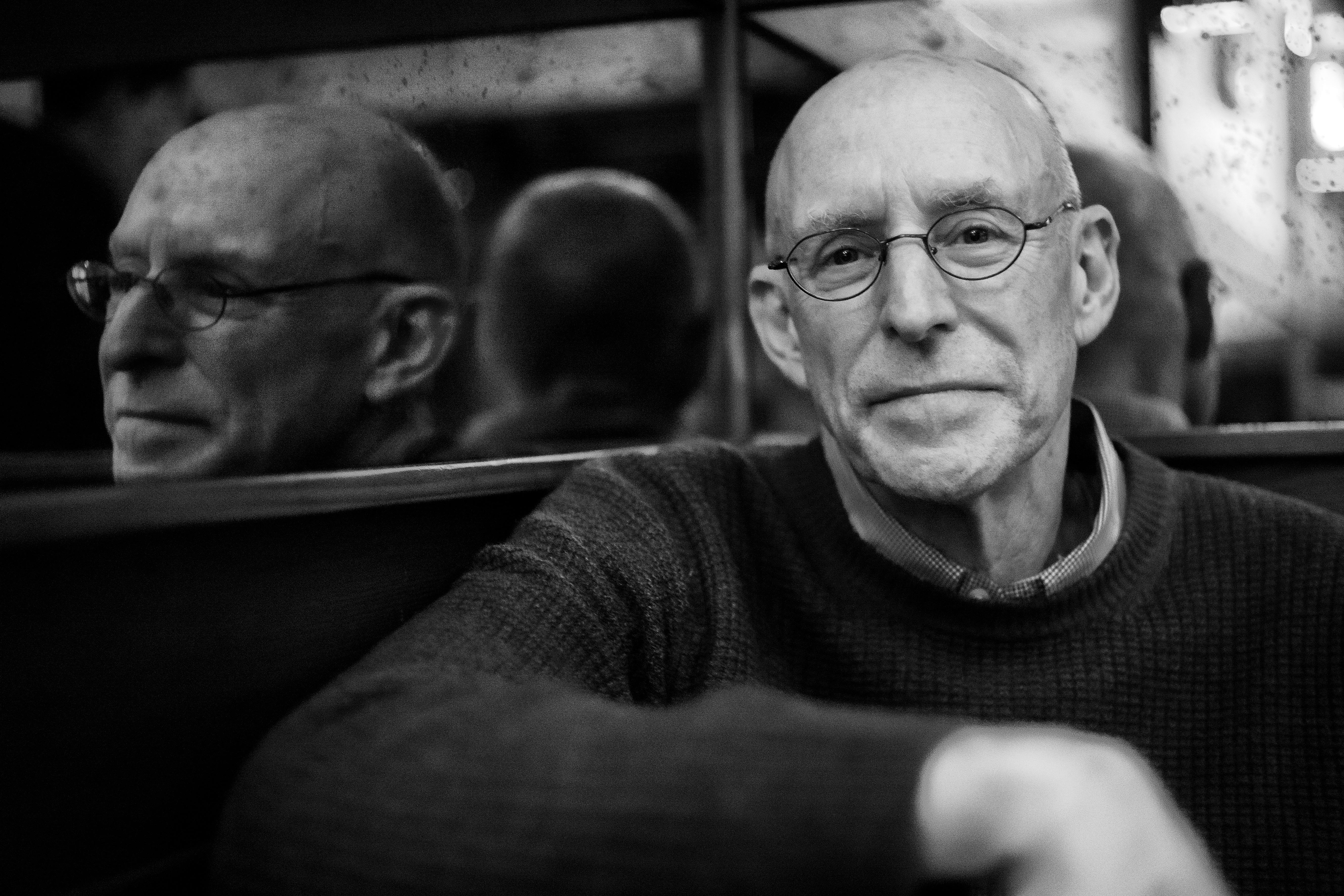 Michael Pollan at Chez Panisse in 2020 by Christopher Michel